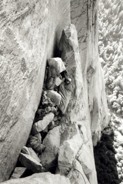 A photo of Chuck Pratt bivouacking on the Hollow Flake Ledge on El Capitan during the first ascent of the Salathe Wall. Photo by Tom Frost.